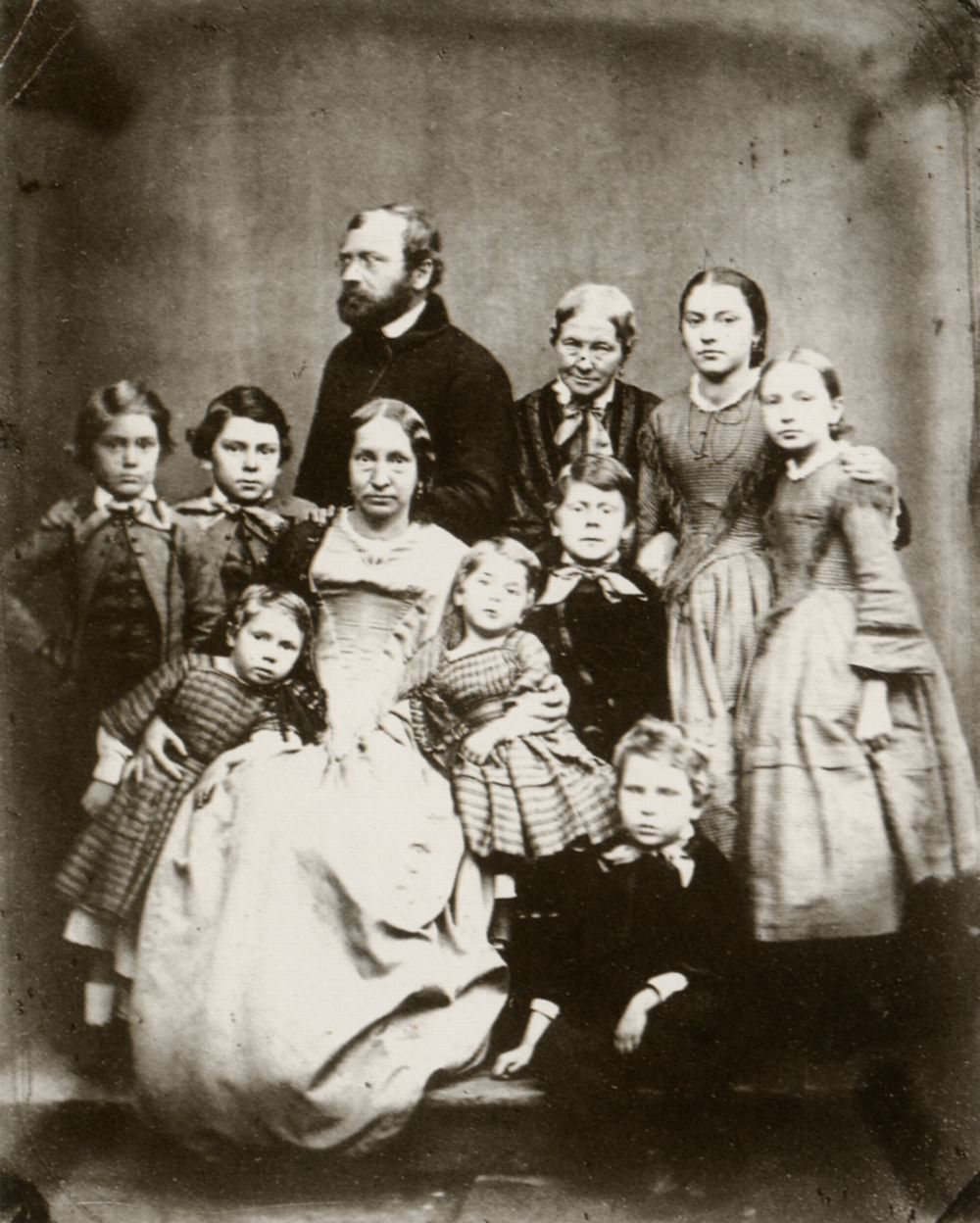 The german sculptor Ferdinand von Miller (1813-1887) with his family